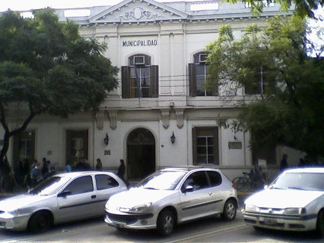 Merlo City Hall.